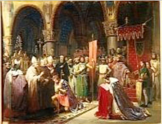 louis vii of france